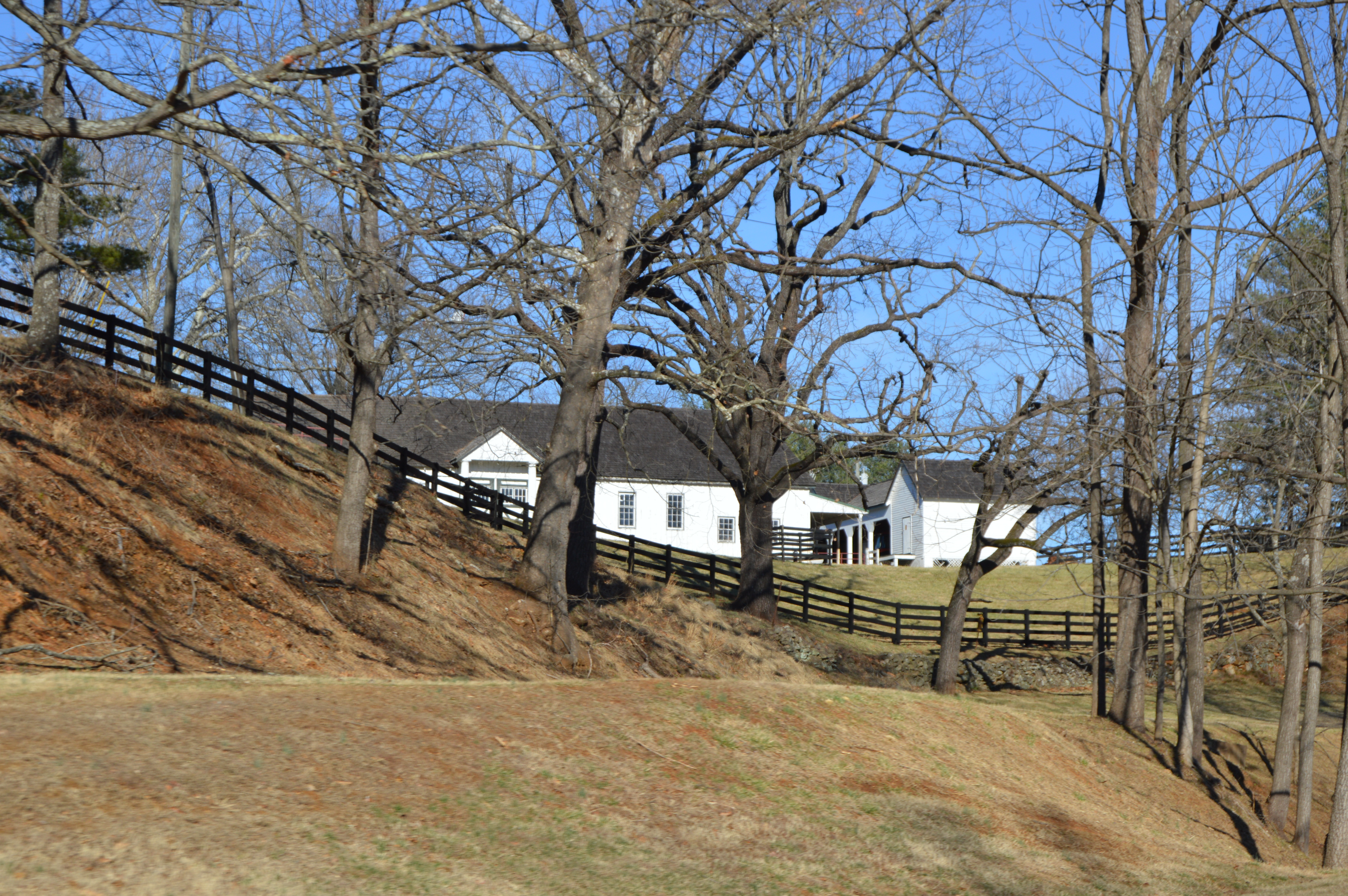 Barns at Seven Oaks Farm, located on U.S. Route 250 west of Crozet in Albemarle County, Virginia, United States. The farmstead is listed on the National Register of Historic Places.